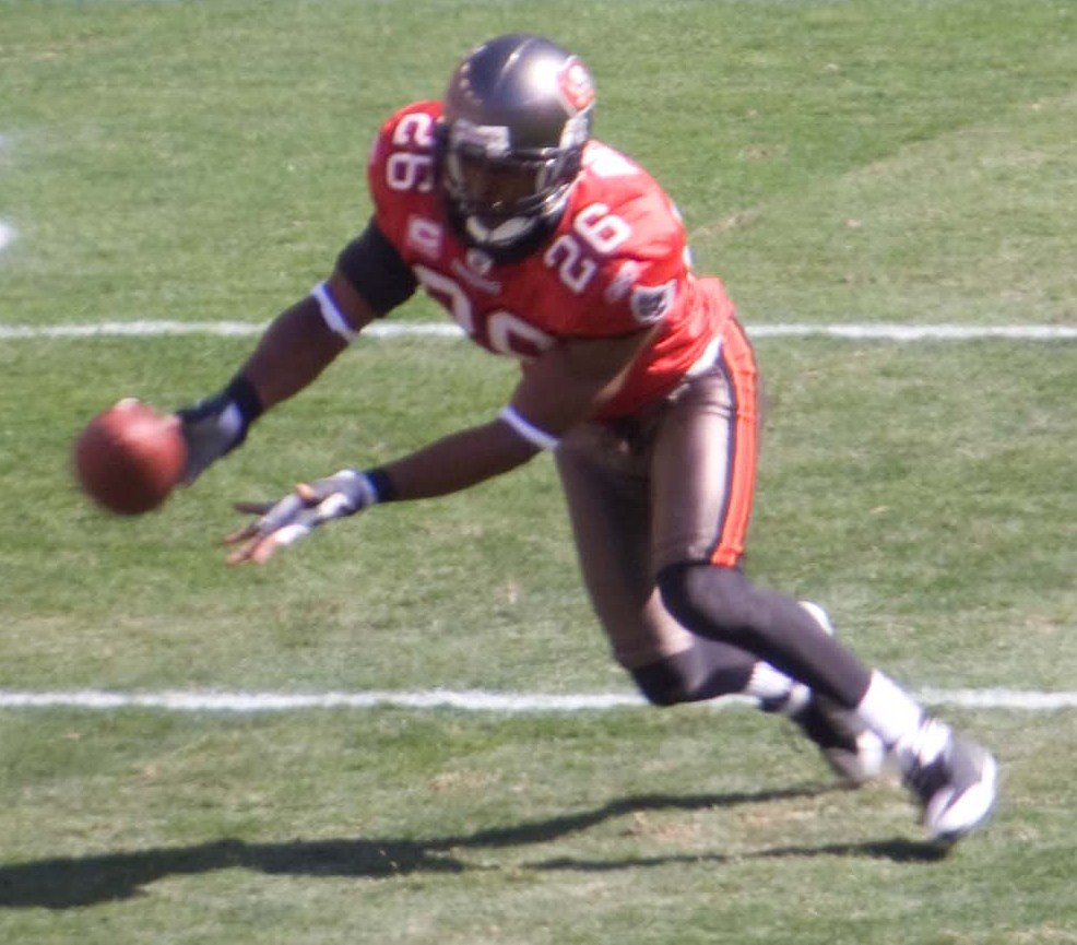 Will Allen (safety) intercepts a Washington Redskins pass